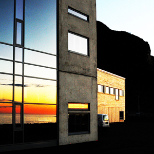 Runde Environmental Centre